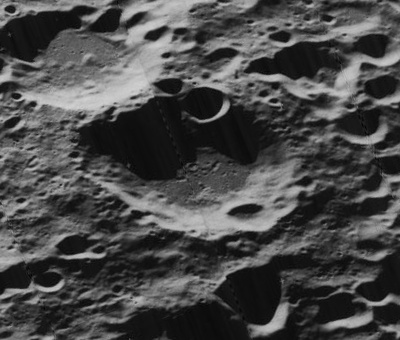 Oblique view of De Moraes crater, facing west